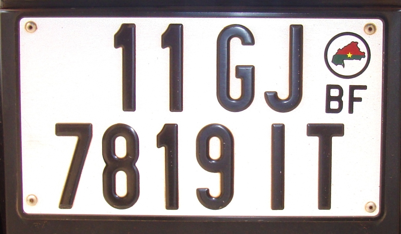 Burkina Faso square pattern passenger vehicle plate